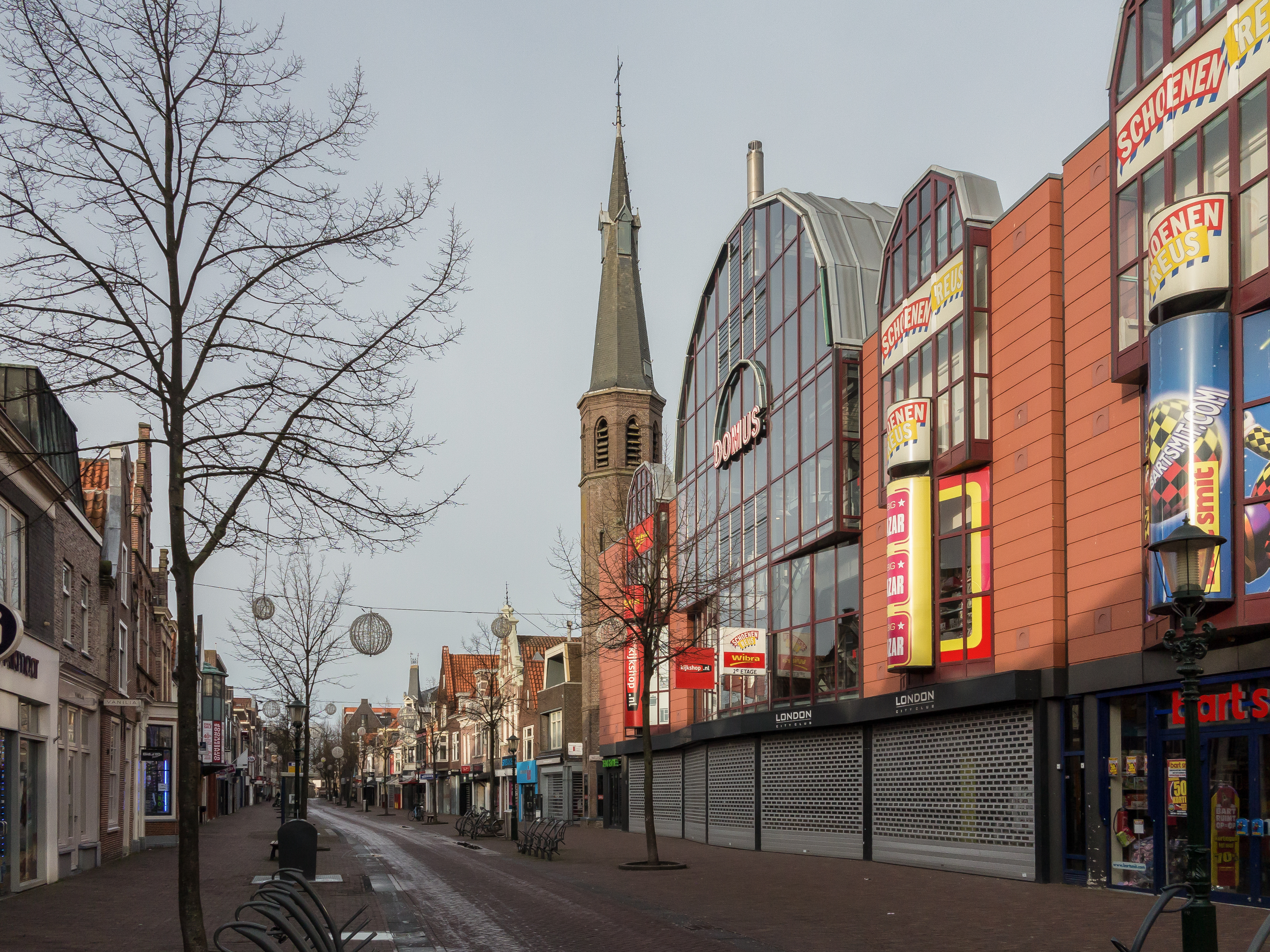 Alkmaar, view to a street De Laat with former church (de Domuskerk)